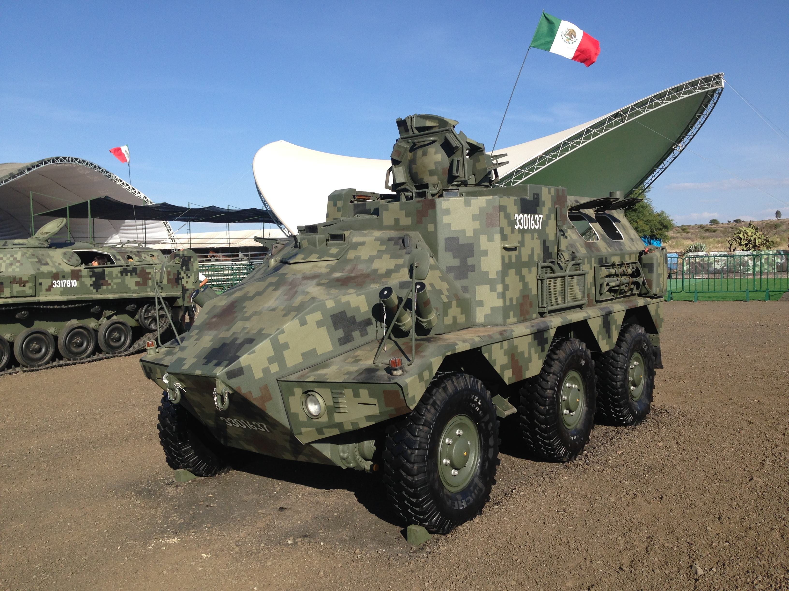 A Panhard VCR armoured personal carrier owned by the Mexican Army on a temporary show in Queretaro.